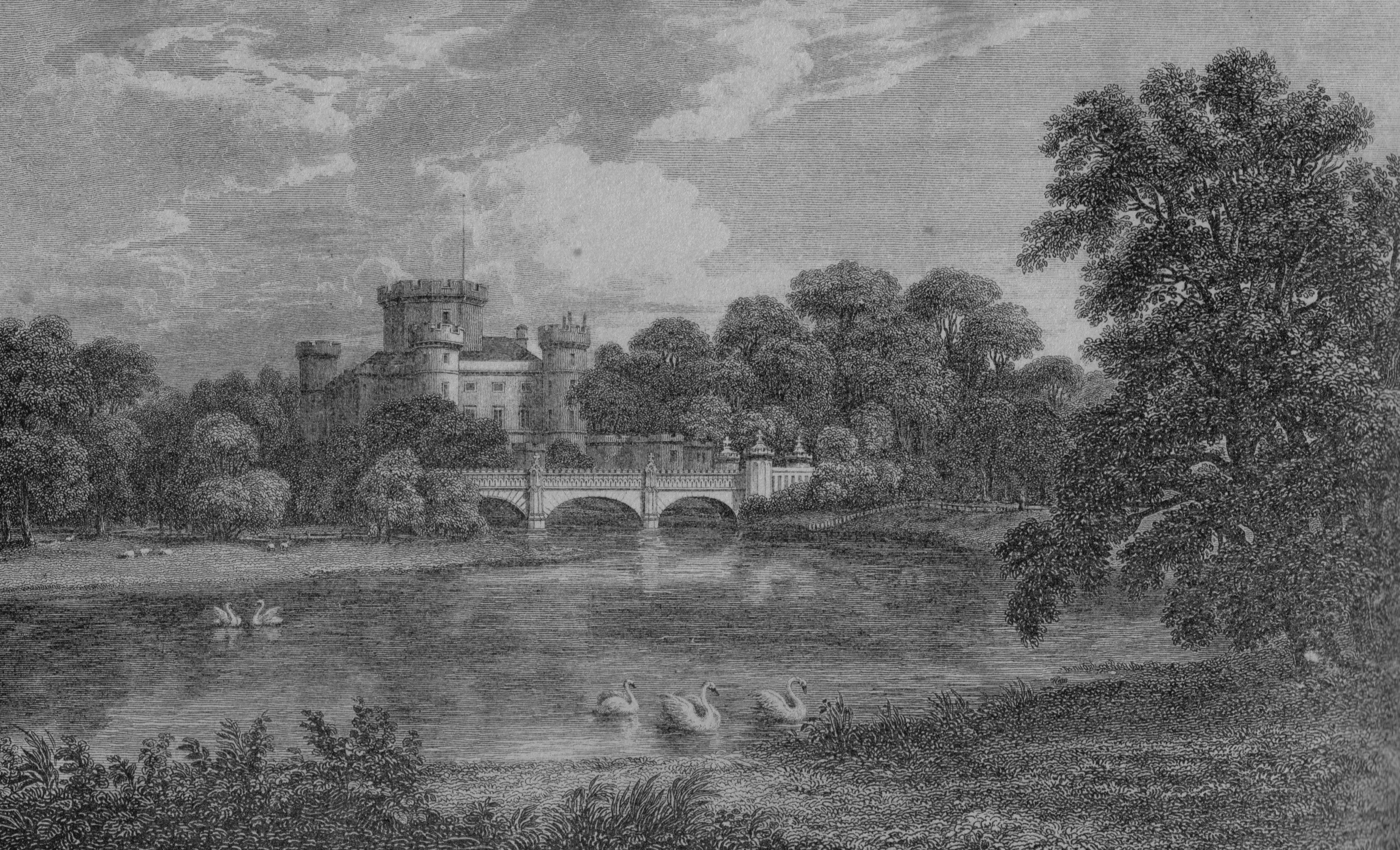 Eglinton Castle and Tournament Bridge (?), North Ayrshire, Scotland.